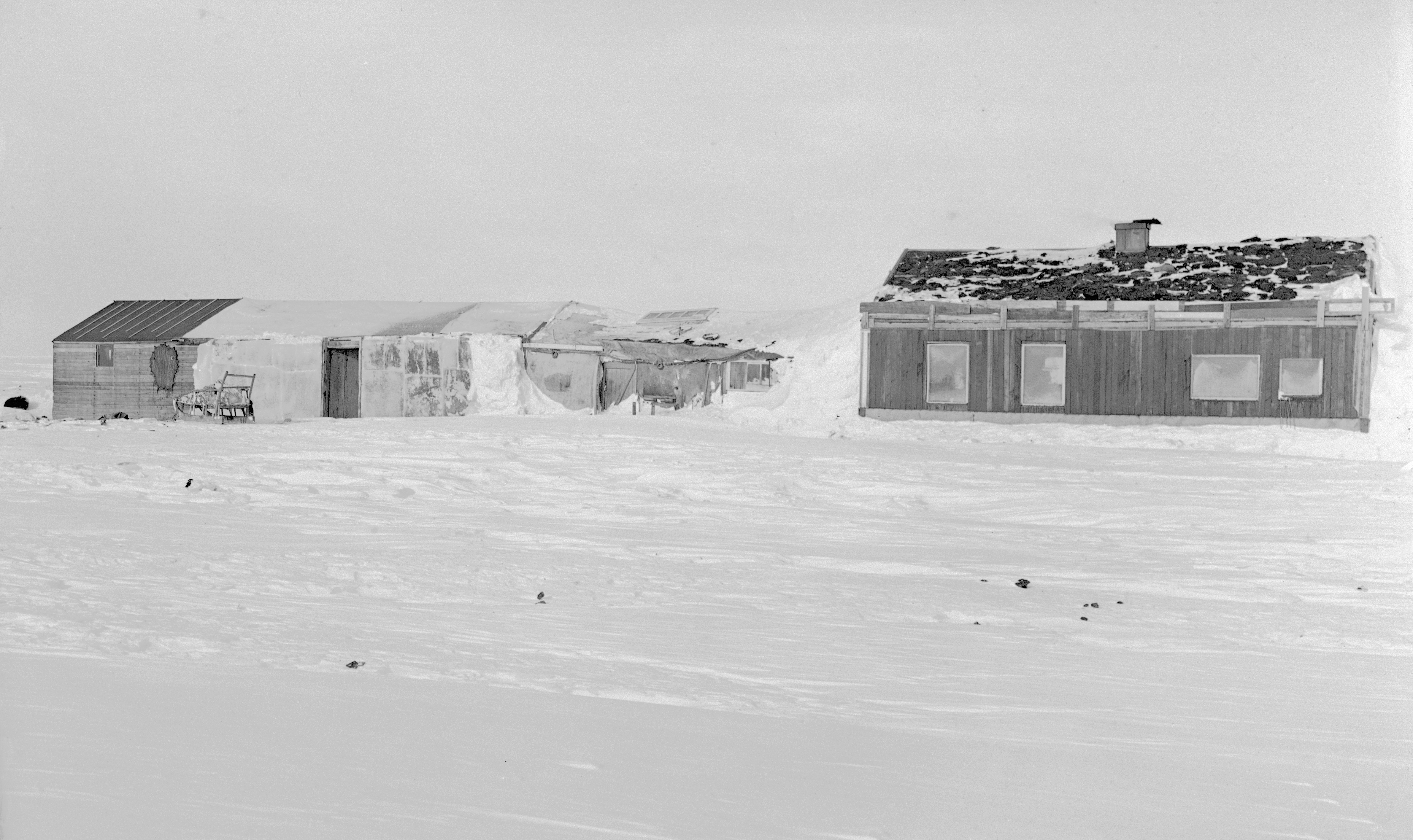 Dwelling house and sheds on Flaxman Island. Anglo-American Polar Expedition. Canning district, Northern Alaska region, Alaska. C. 1910. Plate 6-A, U.S. Geological Survey Professional paper 109. 1919.